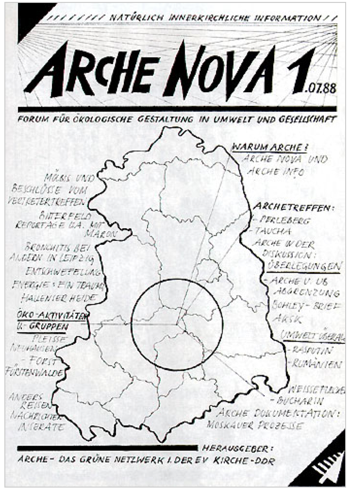 Cover of the GDR samisdat magazine "Arche Nova", 1st issue, 1988, main topic: Bitterfeld